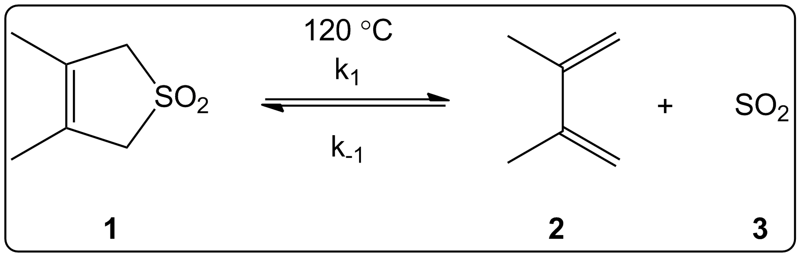 Picture for solvent effect section